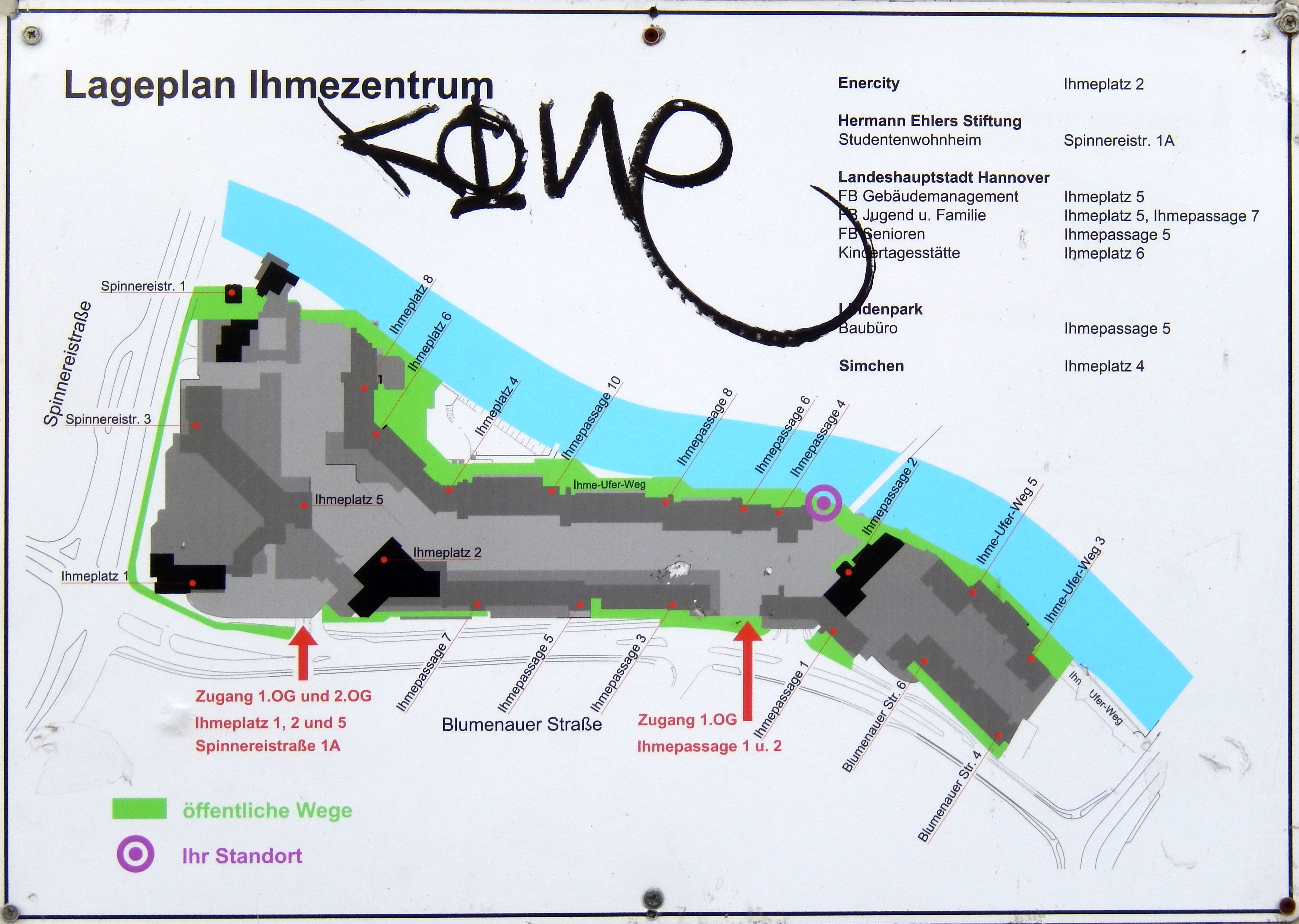 Map of Ihmezentrum, Hannover, Germany.